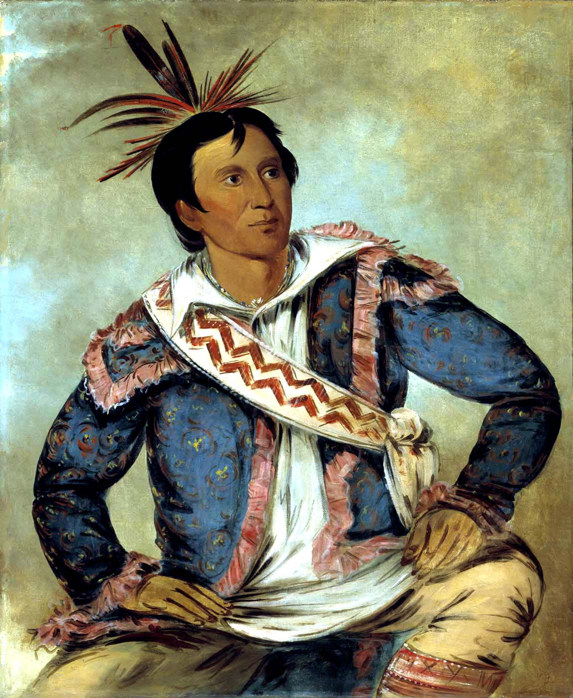 Há-tchoo-túc-knee, Snapping Turtle, a Half-breed